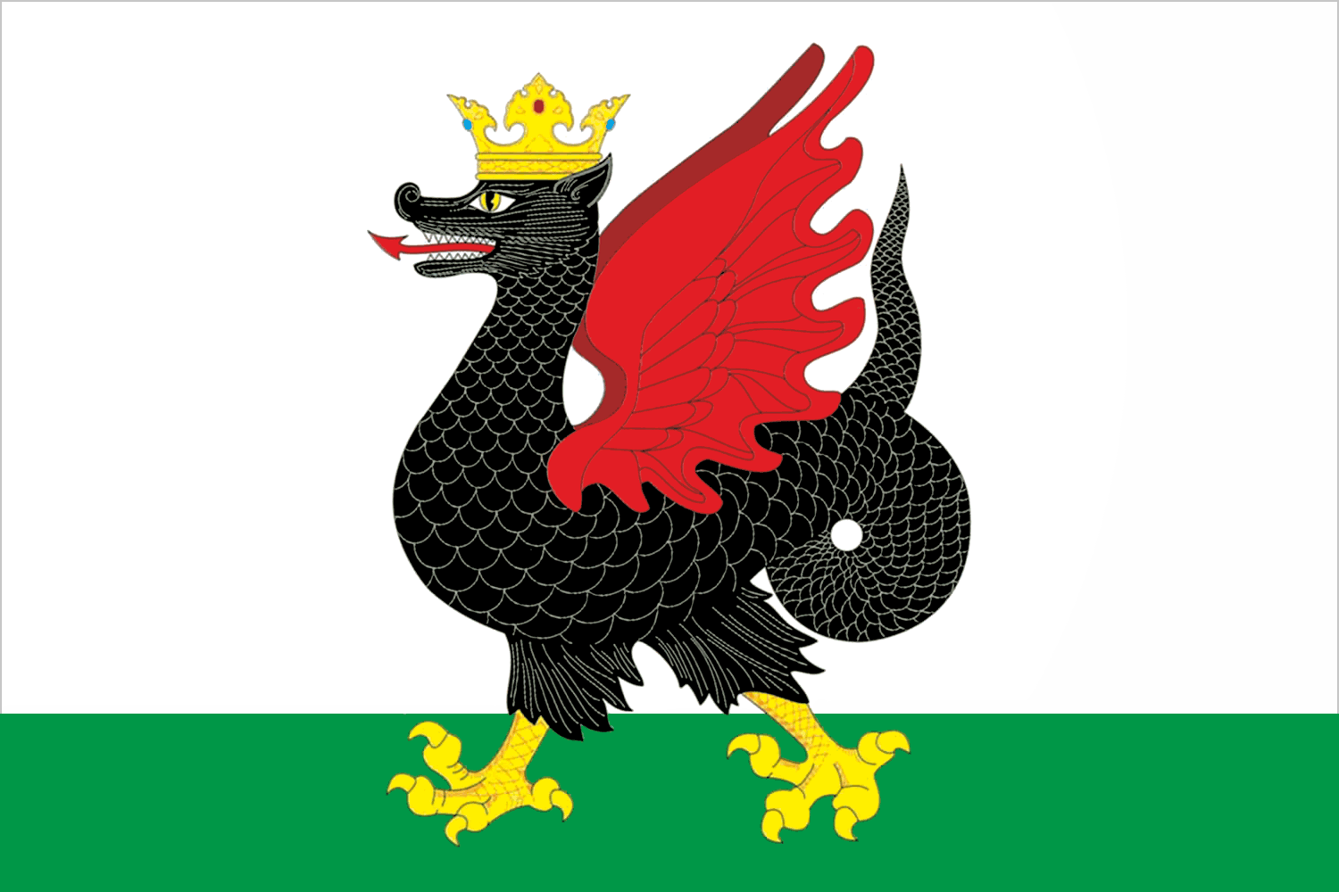 Kazan (Tatarstan), flag